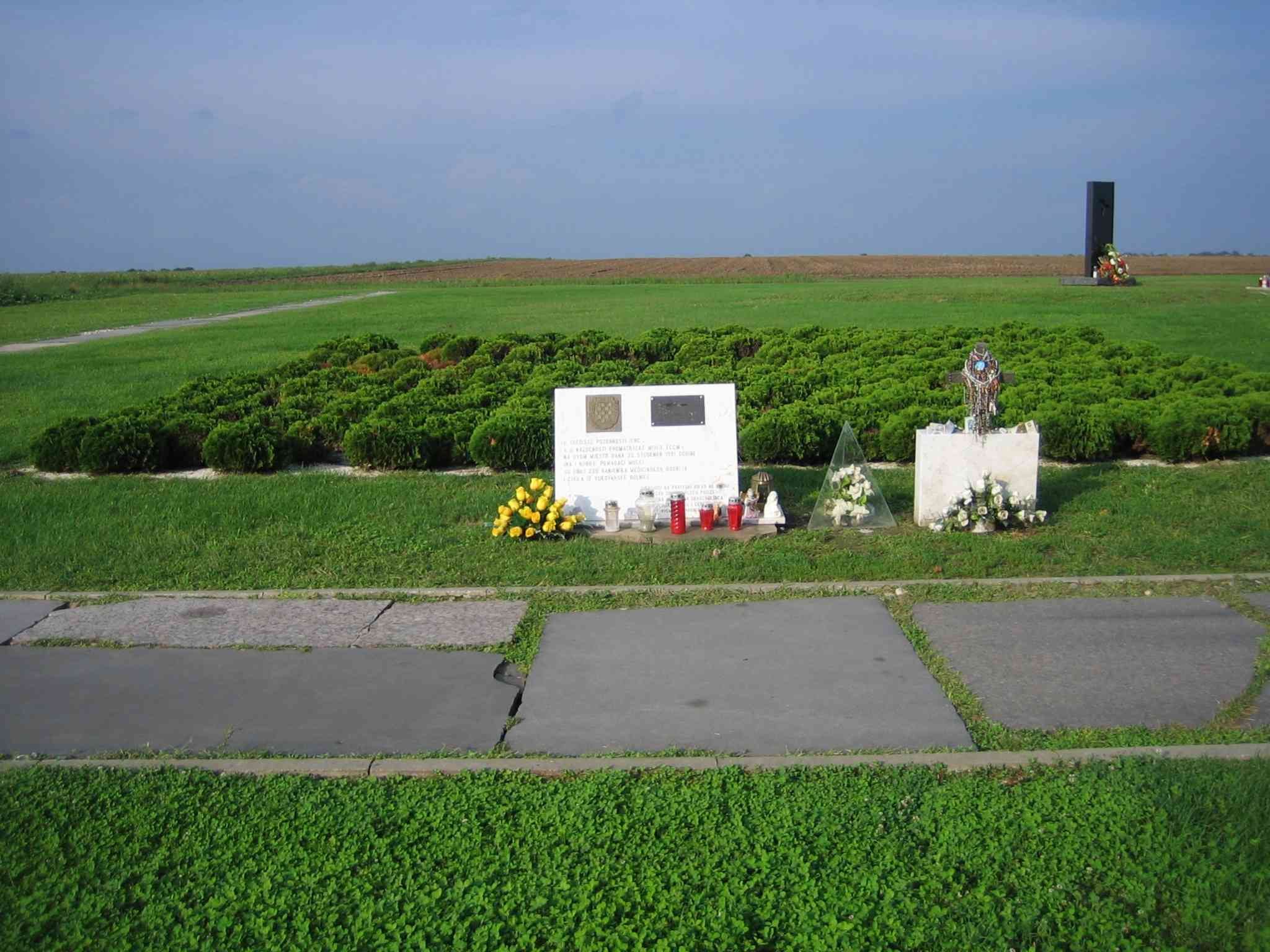 Ovčara Massacre Memorial